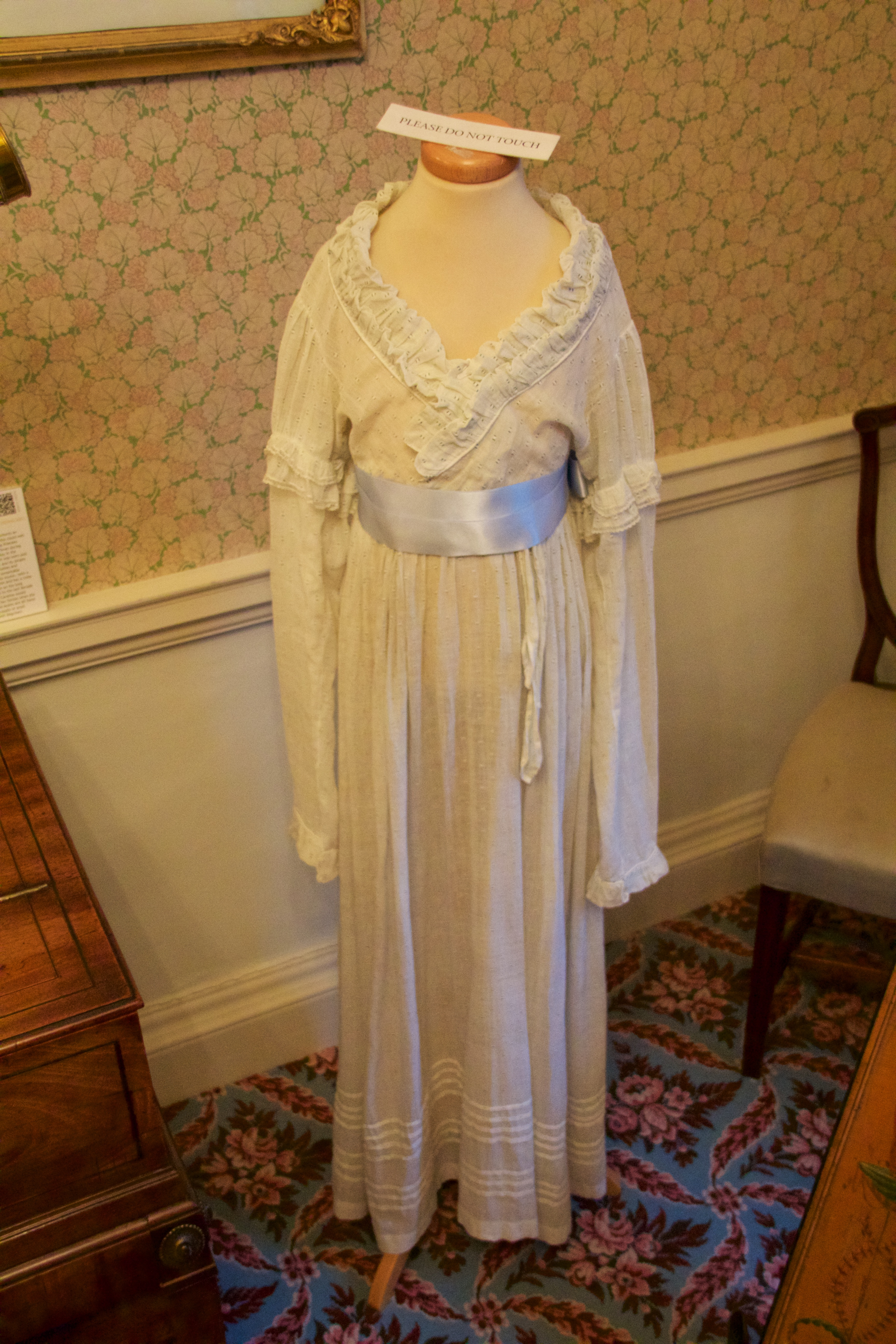 "Dress worn by Caroline Herschel. Caroline Herschel was by all accounts an exceptionally petite lady and this could well have been due to her suffering illnesses such as smallpox and scarlet fever during childhood. The dress on display in the drawing room of the museum was worn and probably made by Caroline, and its simple design reflects the simple tastes and unassuming nature of this remarkable woman. It is made of white muslin, with a pale blue flower decoration, and has a cross-over boudice and lacy trim at the long sleeves. The dress dates to the last decade of the 18th century, so Caroline would probably have been in her forties when she wore it. The pleats and seams are all hand stitched and it has a couple of small patches, which are well disguised." At the William Herschel Museum, Bath.